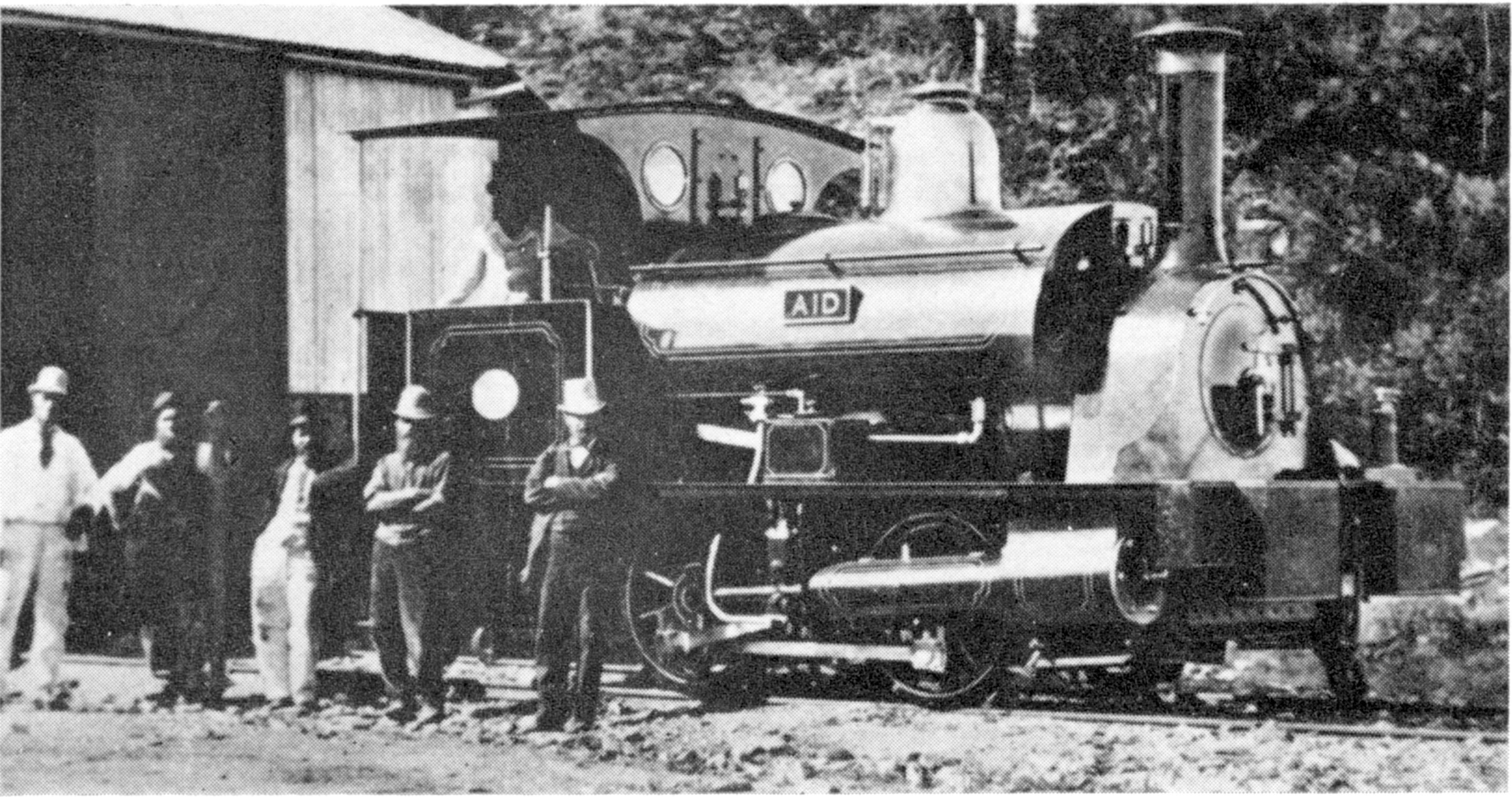 Cape Government Railways 0-4-0ST harbour construction locomotive "Aid" shortly after erection at Port Alfred